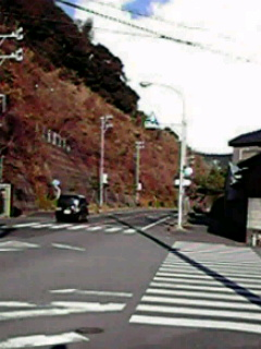 This is the end point of Mie Prefectural Route 769 Nakatsuhamaura-Gokasho line.